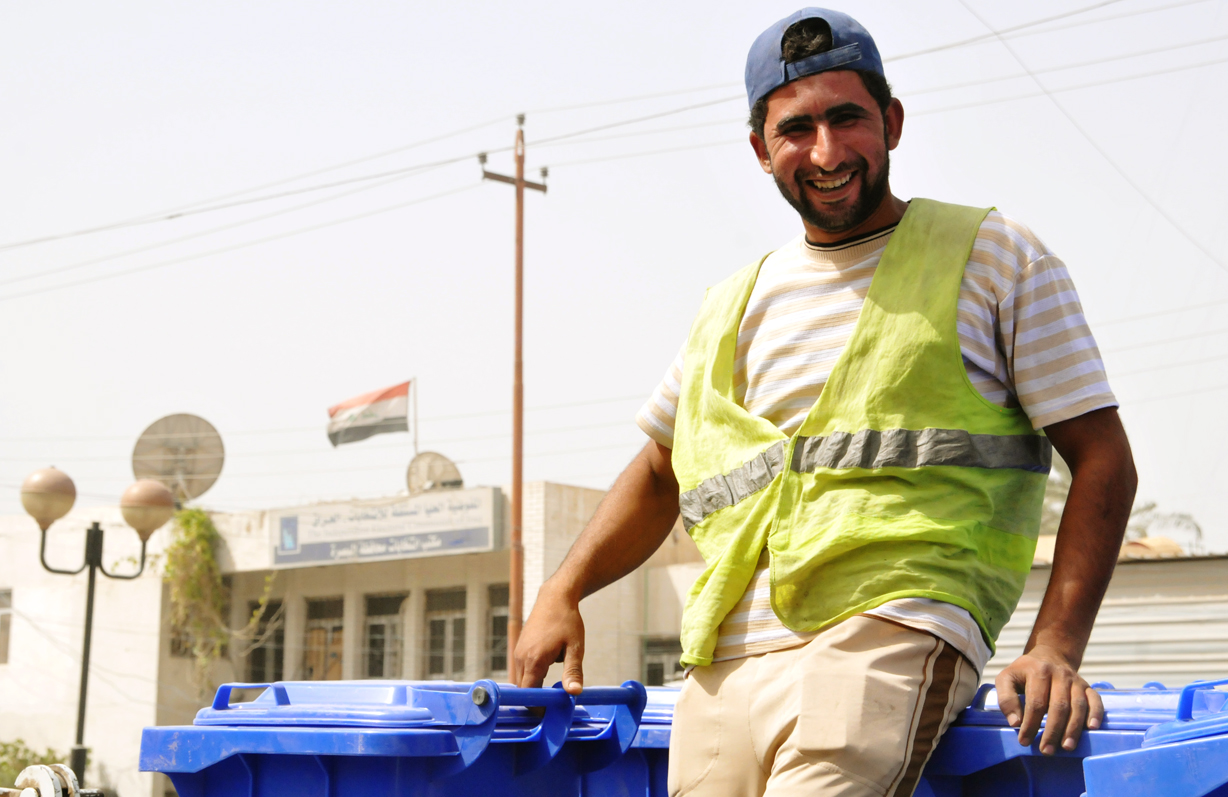 A city worker prepares to unload new trash containers from a truck and distribute them to citizens of Basra, Iraq, July 1, 2009. About 12,000 trash containers were delivered that day, with a total of 350,000 to be delivered in the near future. See more at Trash collection marks new era in Iraqi city